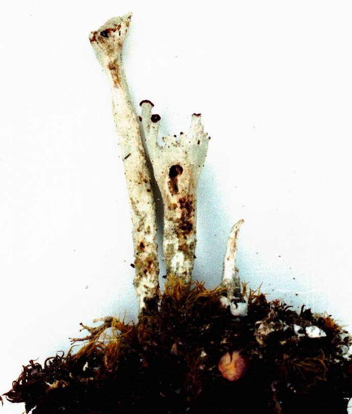 Cladonia digitata (L.) Hoffm., 1796 (photograph of a herbarium specimen) Growing in moss on soil in Cladina barren, 2.2 miles W of the University of Michigan Biological Station, Cheboygan County, Michigan, USA; collected and identified by Richard E. Riefner (No. 81-219, 23 Jun 1981); specimen is now in the Lichen Herbarium of the New York Botanical Garden.